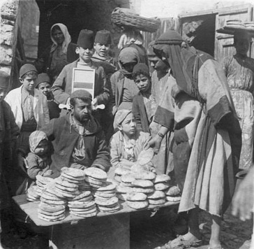 Photograph,1910, of a bread seller in Damascus, in front of the bakery. "While we were passing through the crowded bazaars this after-noon, I was very much interested and amused by the number and variety of the street calls or cries." Two lads, carrying between them a large tray loaded of bread, cried out, "Ya Karim! ya Karim!" That is not the name for bread. No, it is one of the attributes of God, and signifies the bountiful or generous; and since bread is the staff of life, the name implies that it is the gift of the Bountiful One". THE LAND AND THE BOOK W.M. Thompson. 1886.